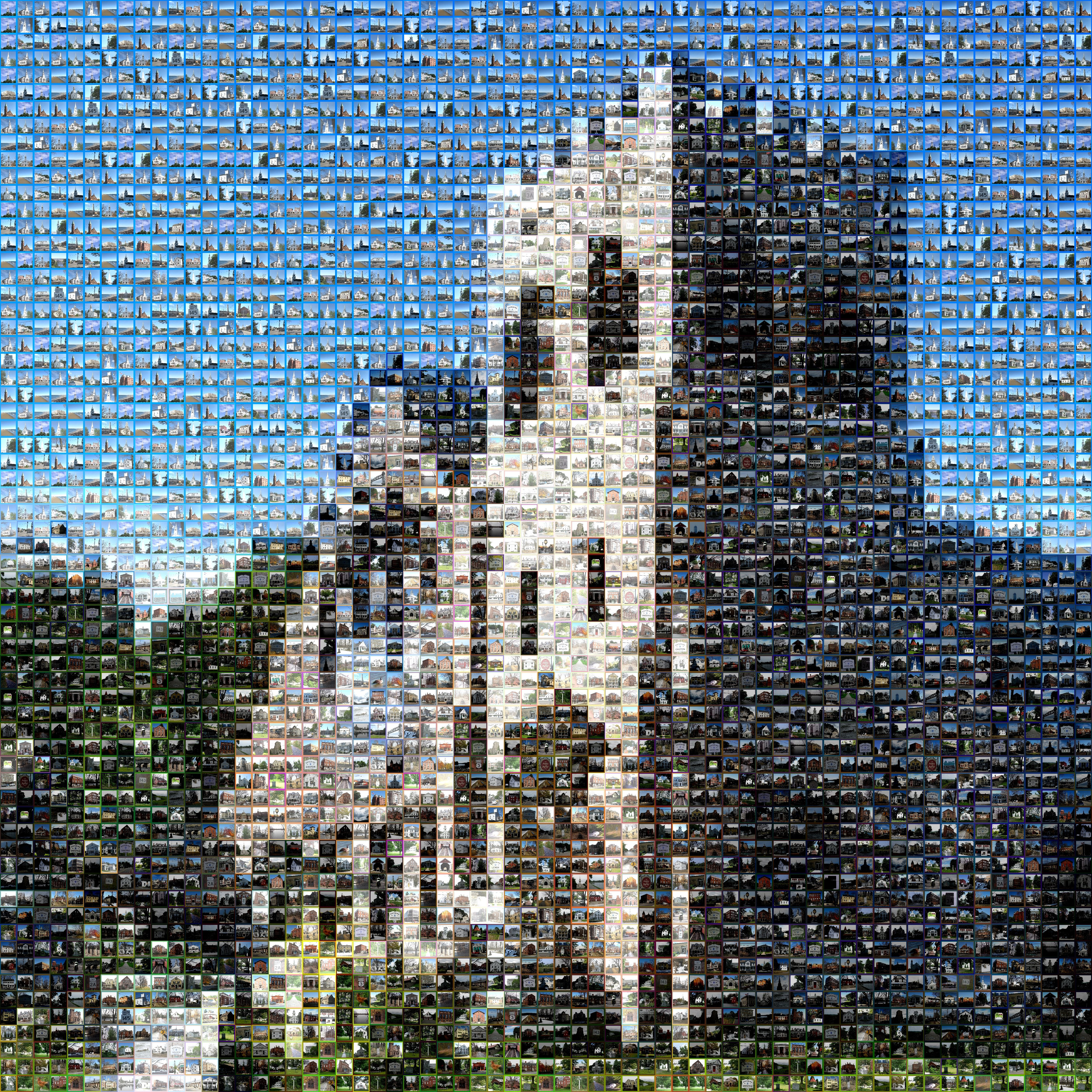 374 Places in Massachusetts based on Unitarian Universalist Church and Parsonage, Medford MA.jpg